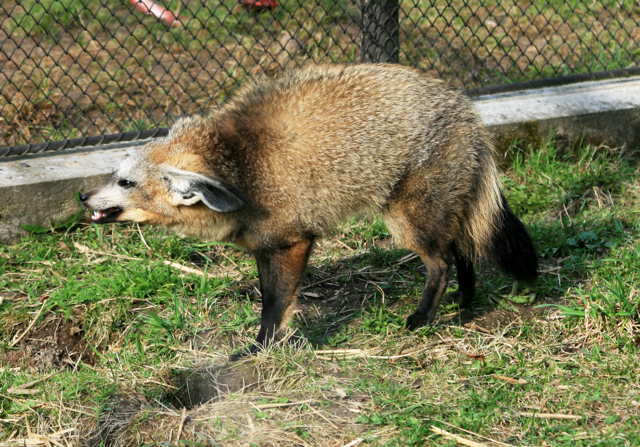 Bat-eared Fox, Otocyon megalotis in ZOO Dvůr Králové, Czech Republic